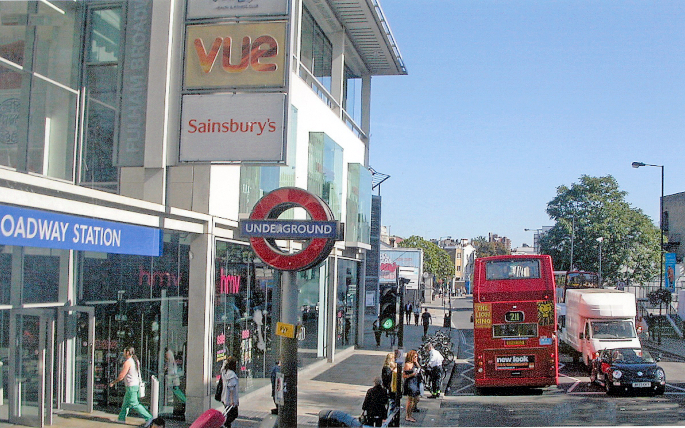 Fulham Broadway Station entrance, 2009. View eastward on Fulham Road, from the top of a Route 14 bus